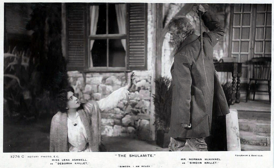 Scene from "The Shulamite", written by Claude Askew and Edward Knoblauch, which opened on 12 May 1906 at the Savoy Theatre, London starring Lena Ashwell (1872-1957) and Norman McKinnel (1870-1932).